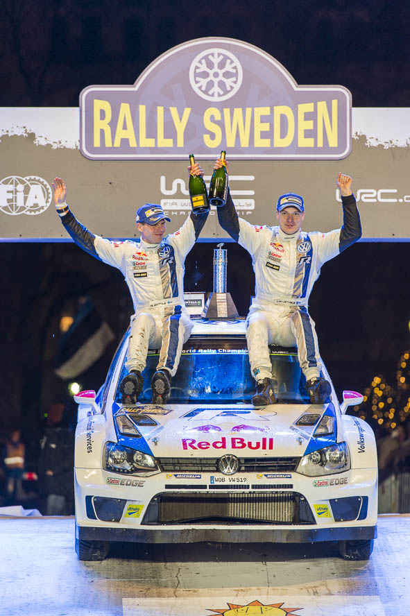 Rally Sweden 2014 Jari-Matti Latvala,Mikka Anttila,Motorsport,Podium,Rally,Rally Sweden,Rallye,Rallye Schweden,Siegerehrung,VW Polo R WRC,Volkswagen Motorsport,Volkswagen Polo R WRC